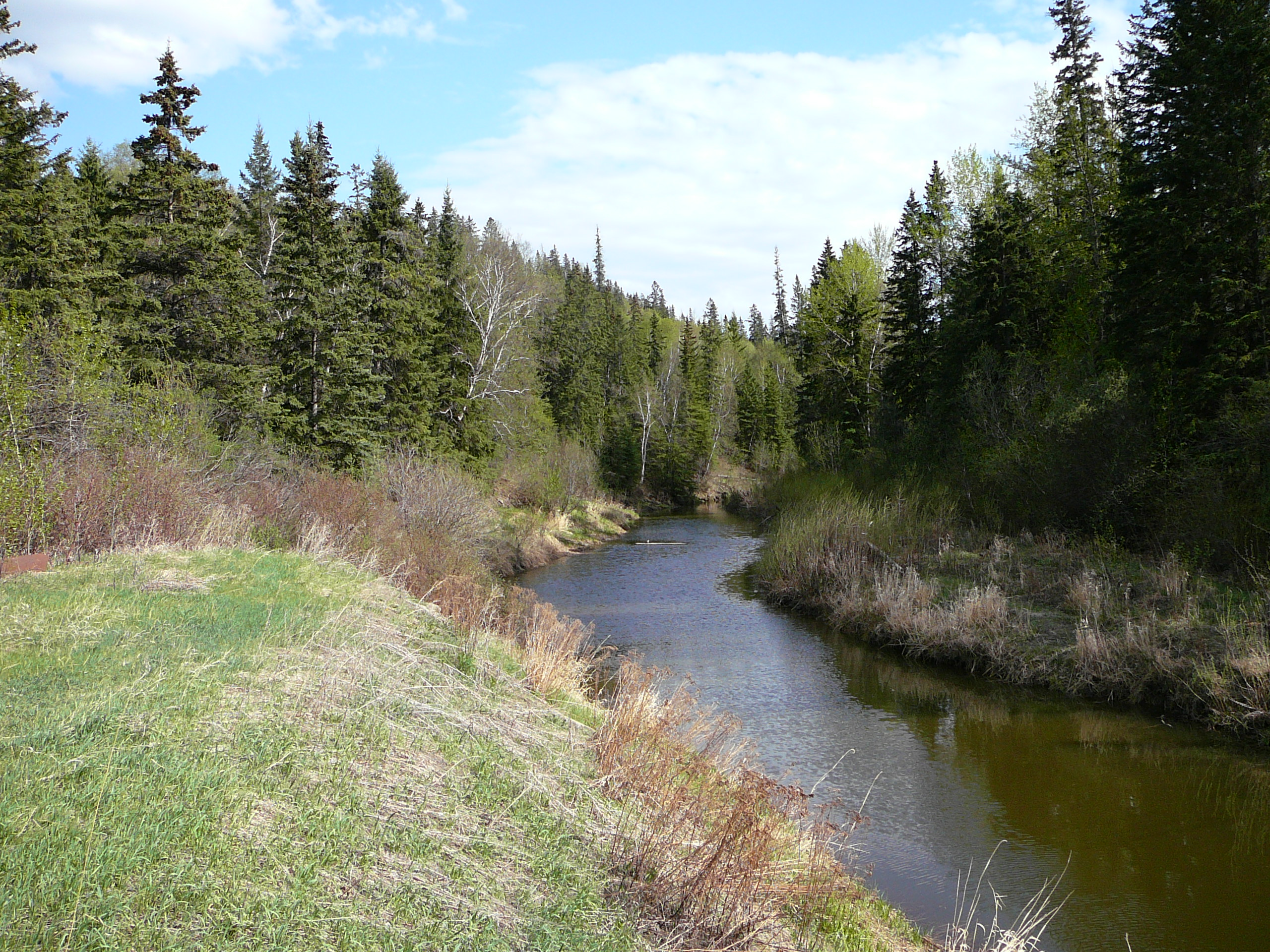 Picture of Whitemud Creek. This picture was taken just to the south of where Fox Drive crosses Whitemud Creek.